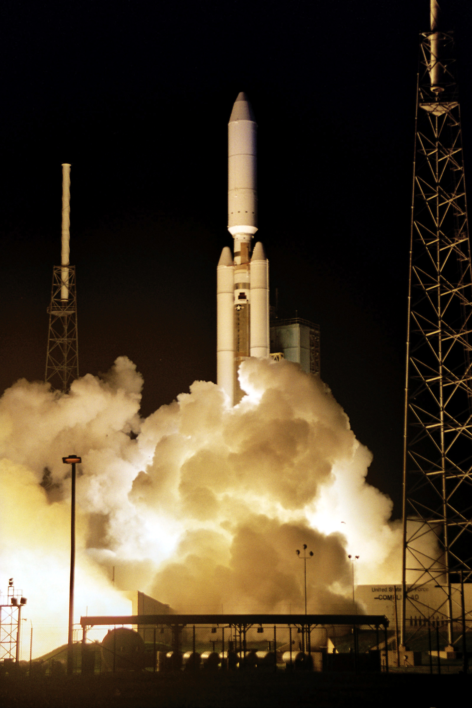 A Titan IV B rocket takes off from Cape Canaveral Space Launch Complex 40 on September 9, 2003. The rocket carried a National Reconnaissance Office ELINT payload (NROL-19, also known as USA-171) into orbit. The classified payload will help enhance national security for the United States and support deployed forces.